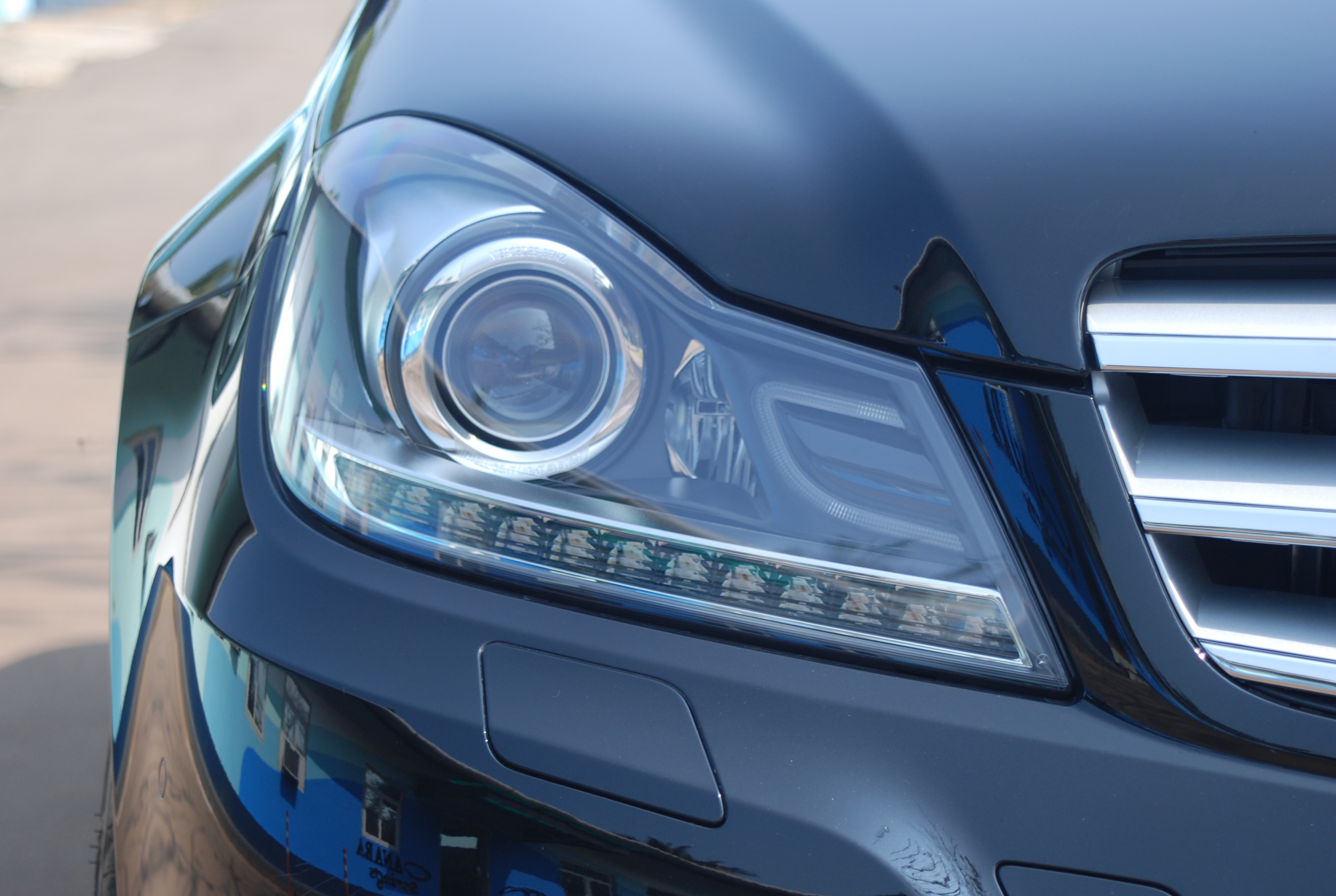 Headlight of the 2012 facelifted Mercedes Benz C-Class sedan